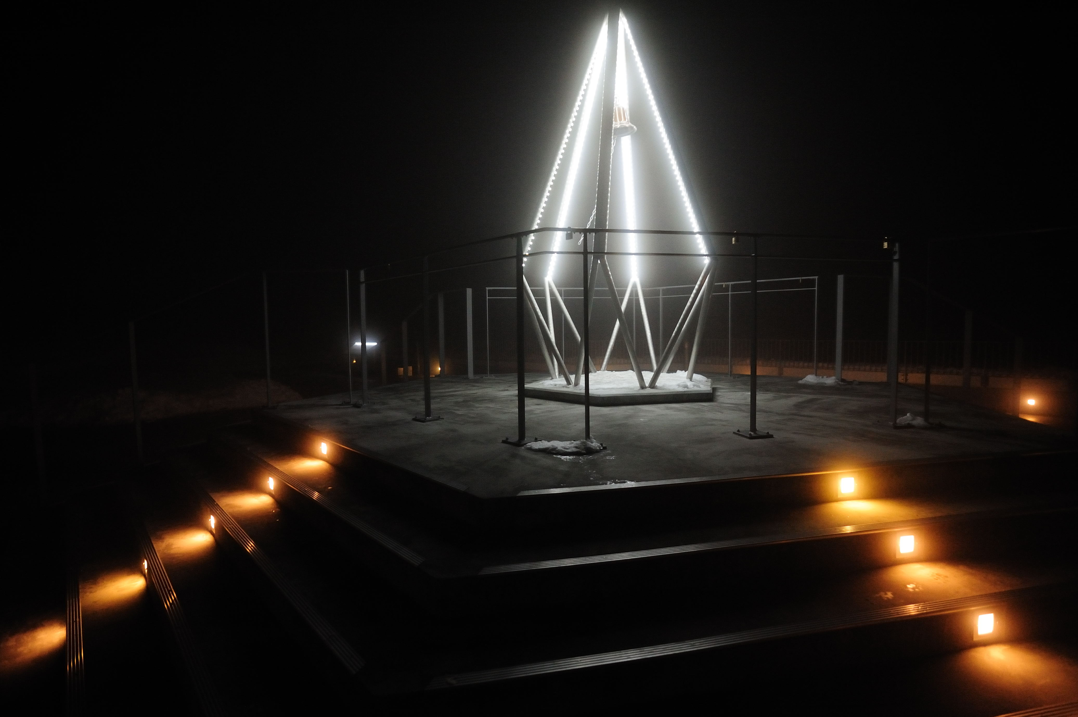 The Fortune Bell at the Moiwayama Observation Deck in Sapporo, Japan.